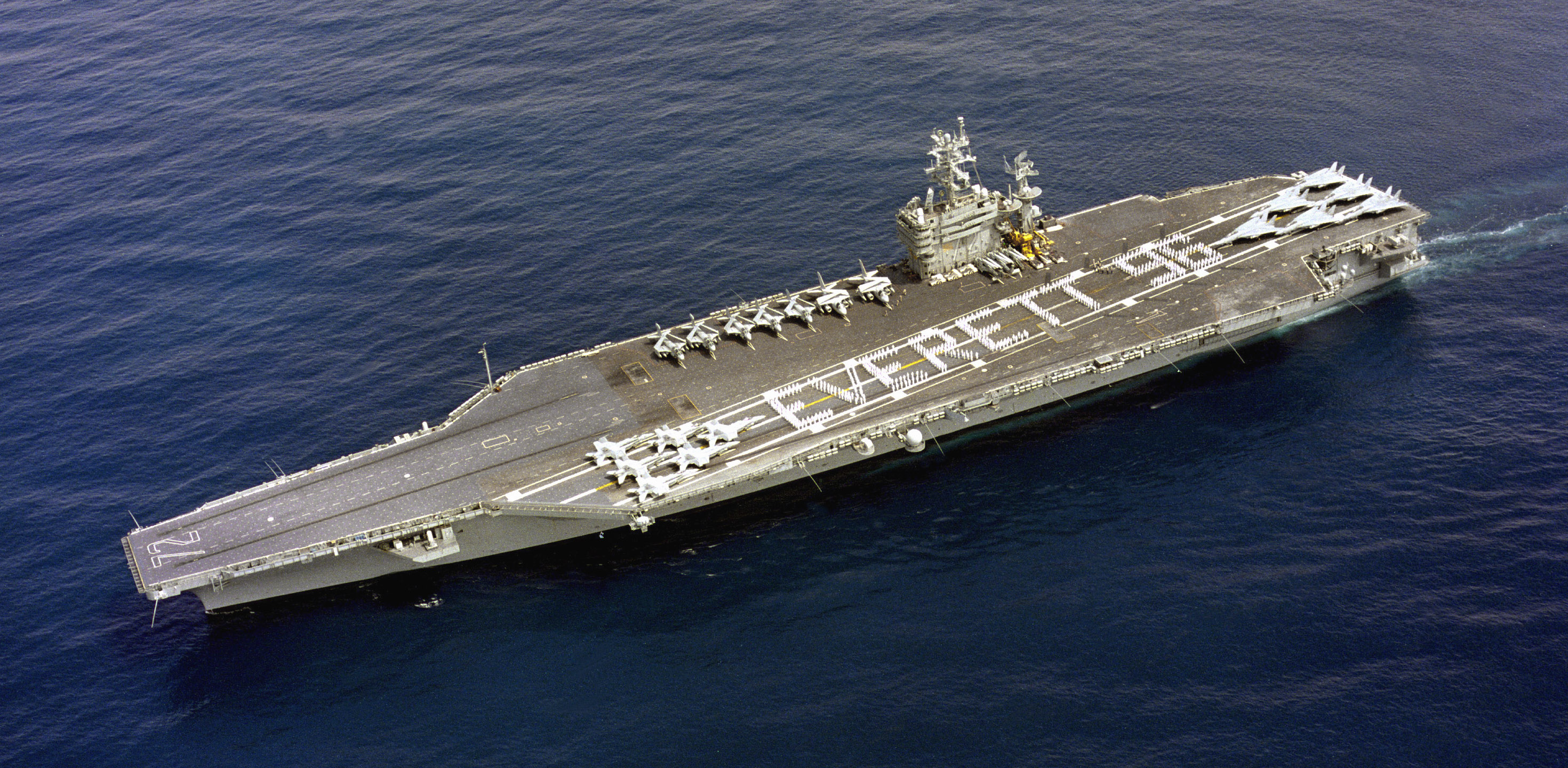 An aerial port quarter view of the nuclear-powered aircraft carrier USS ABRAHAM LINCOLN (CVN-72) approaching its future homeport. The LINCOLN is the first aircraft carrier to tie up at the new pier in Everett. The ship is scheduled to change homeport's from NAS Alameda, California to Everett in late 1996.